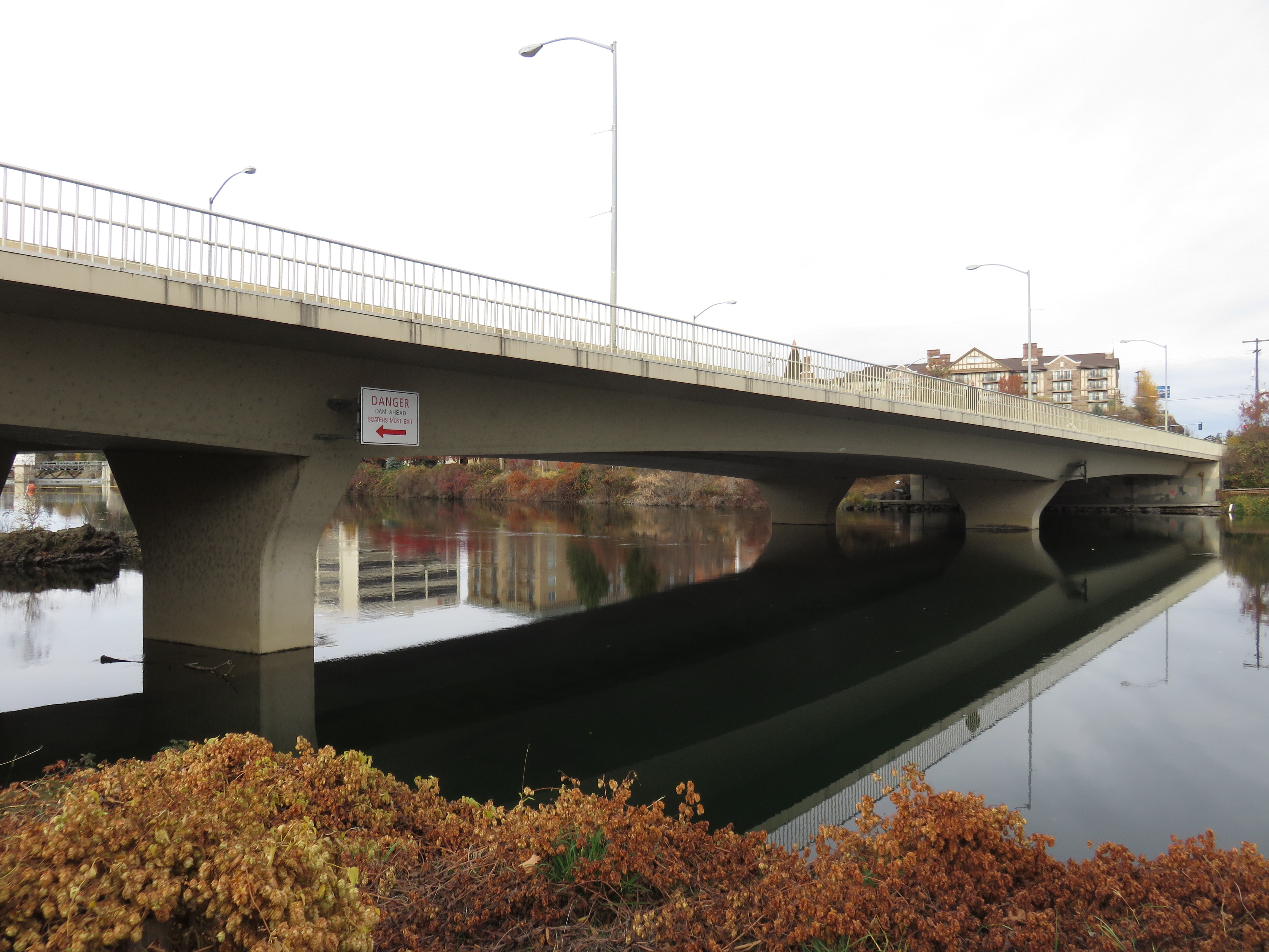 Division Street Bridge over the Spokane River in 2018